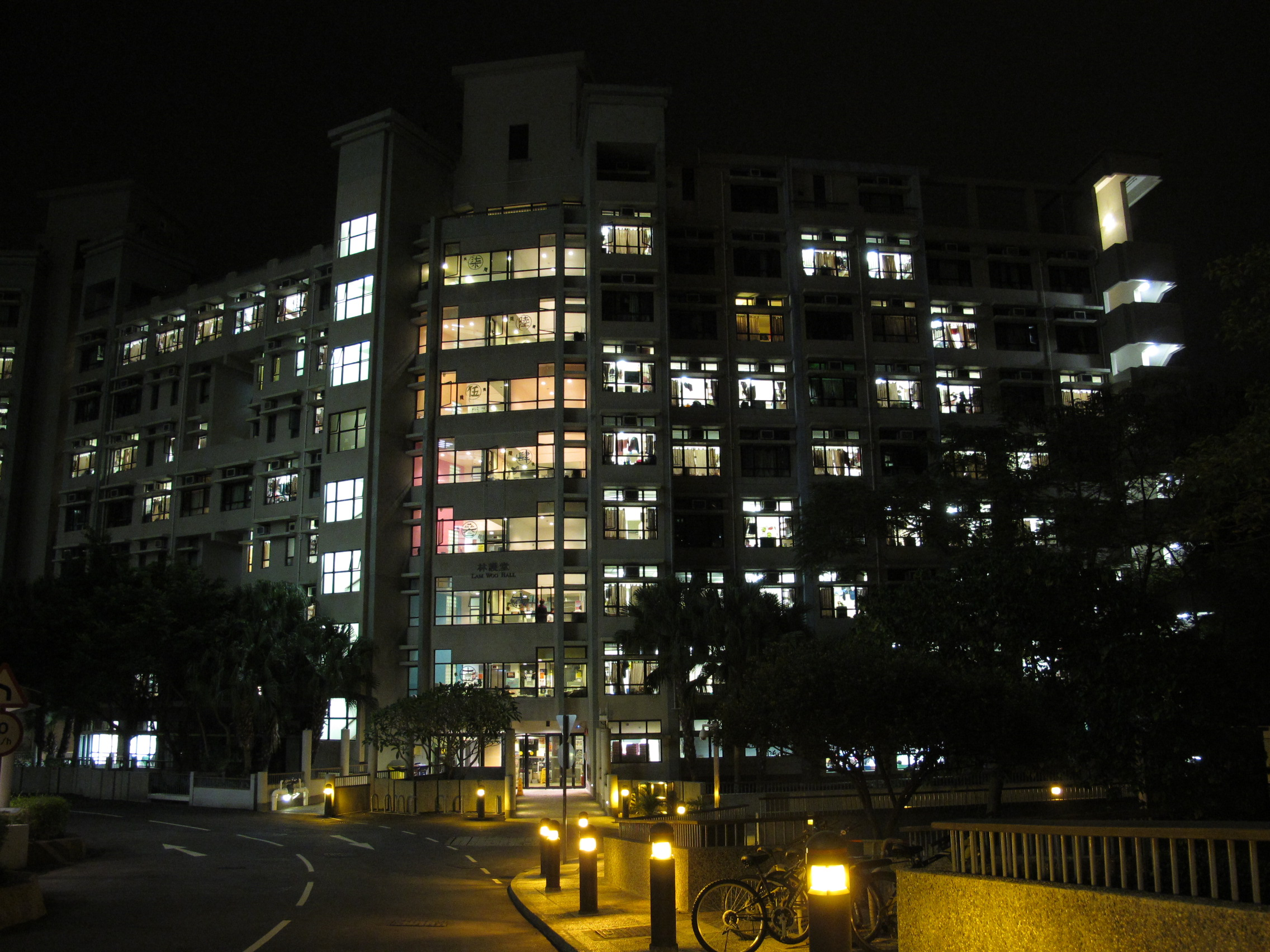 Lingnan University Hostel D Lam Woo Hall